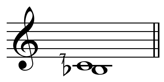 Septimal major second on B♭. Inverted harmonic seventh = 8:7 = 231.17 cents.